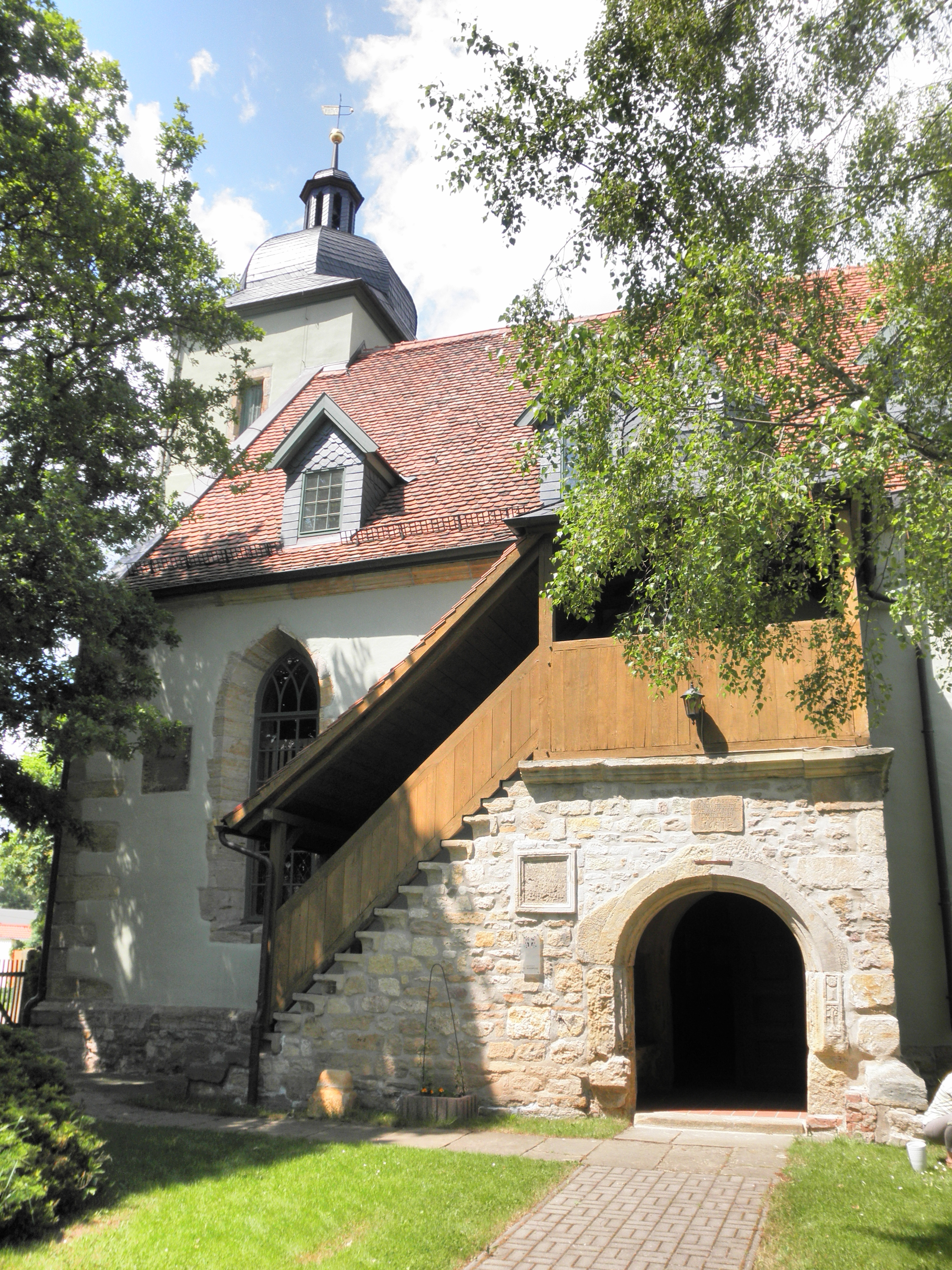 Church in Ermstedt